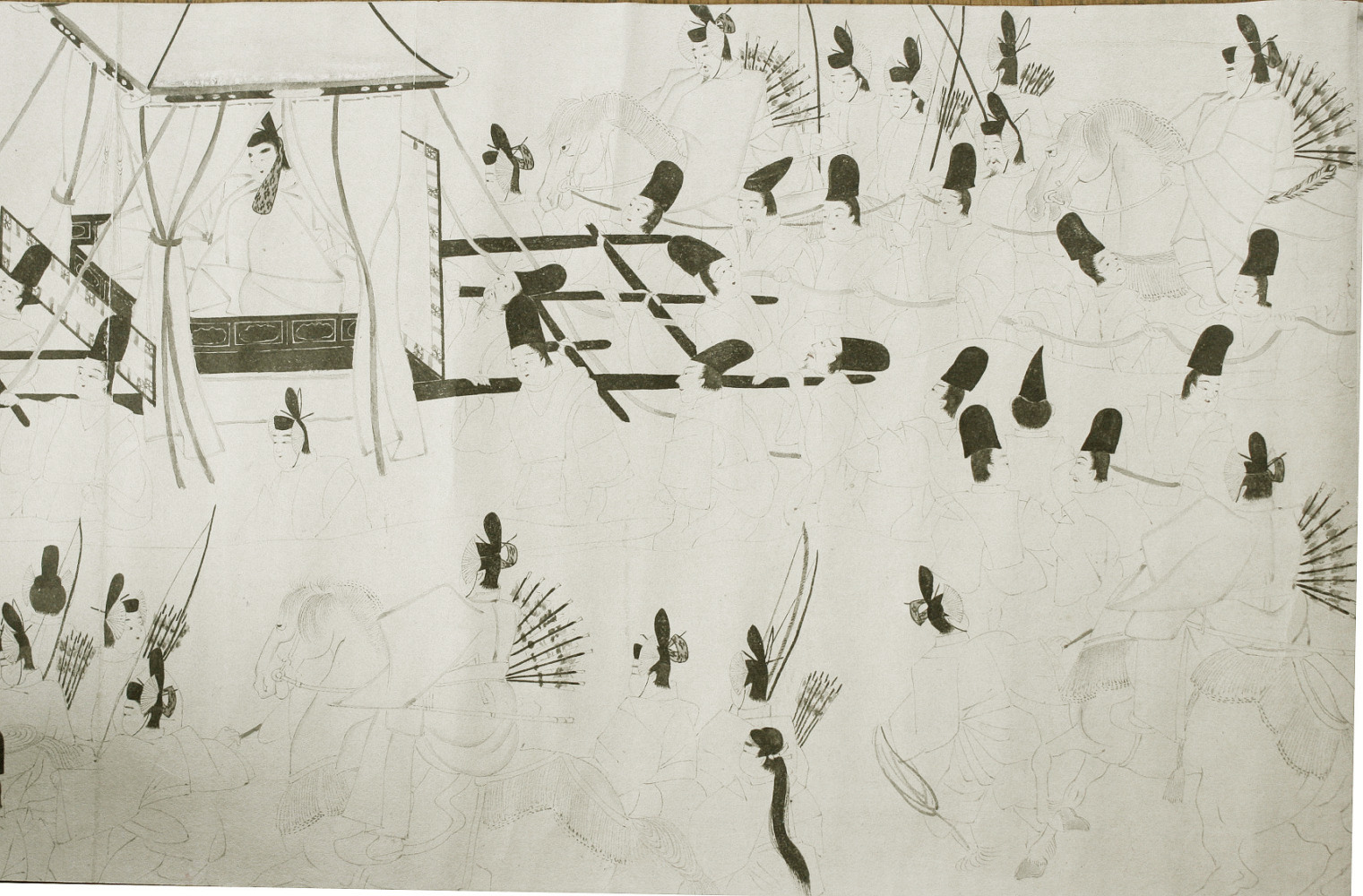 A part of one section of the Illustrated handscroll of The Pillow Book, ink on paper, 13th century, Japan Published ACE1921